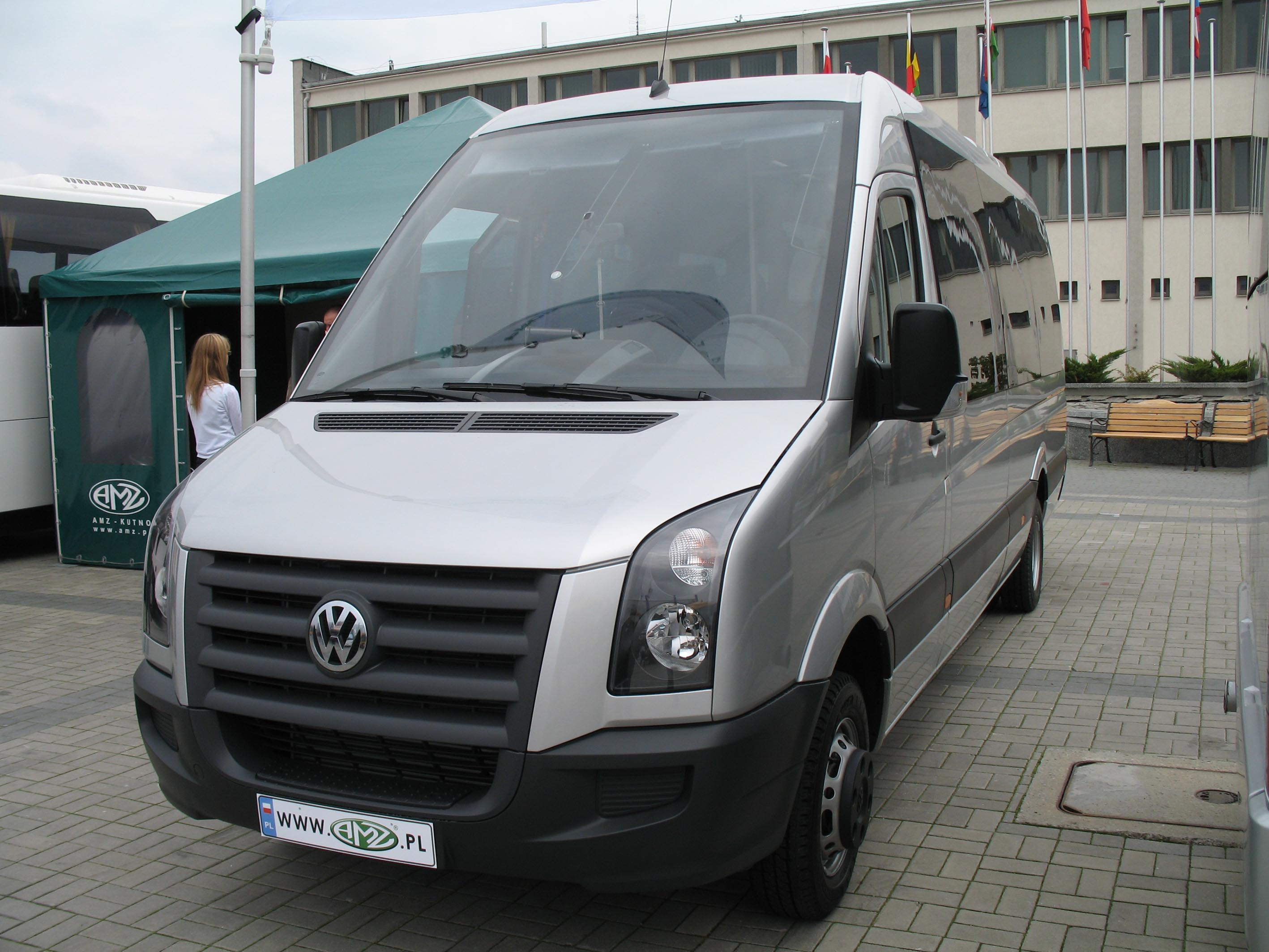 AMZ Crafter 50 bus base on Volkswagen Crafter TDI in Kielce, Poland, Transexpo 2008.